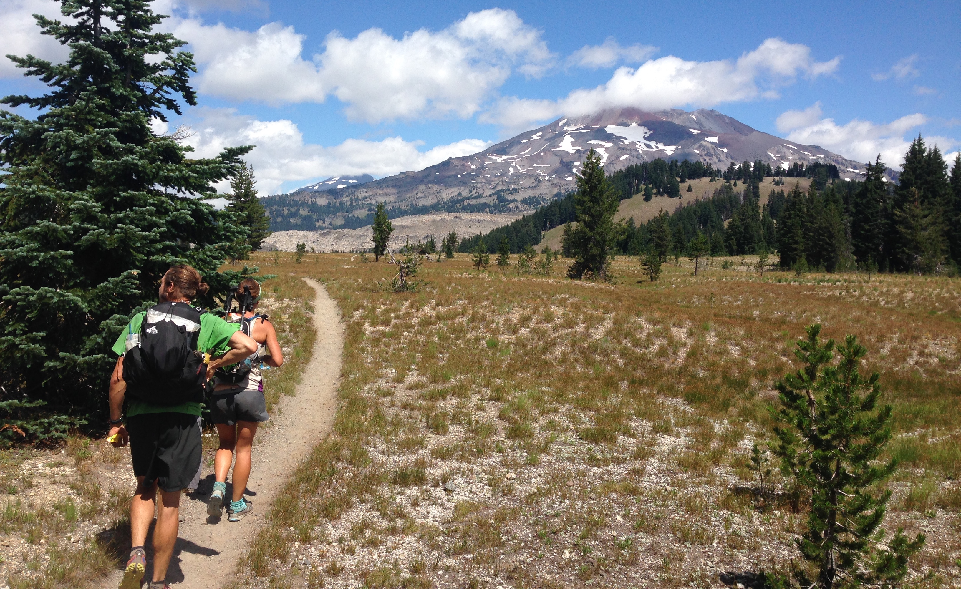 Two hikers on the Pacific Crest Trail in the Three Sisters Wilderness in Oregon, United States